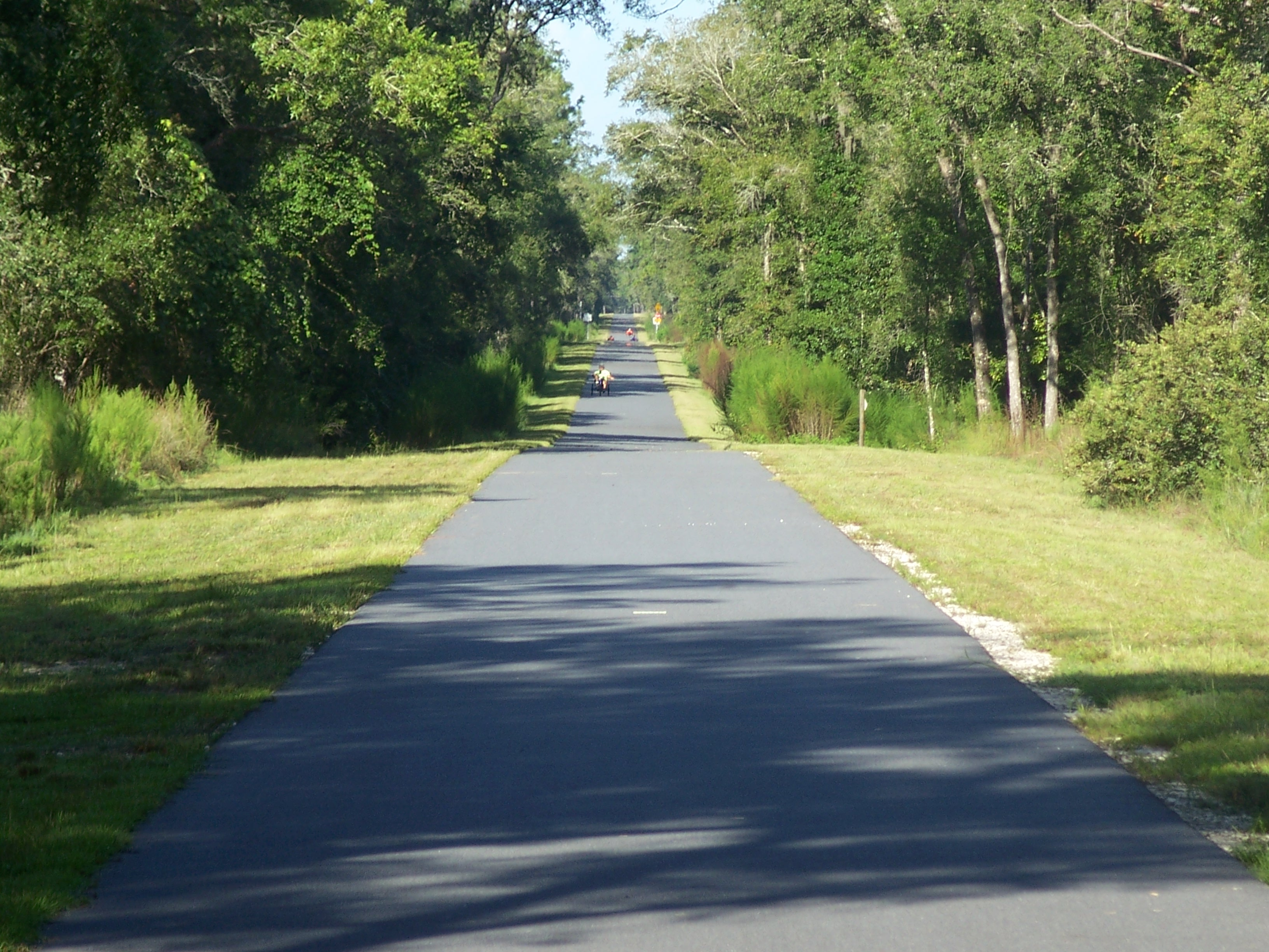 This photo was taken on the morning of August 8, 2020 from the intersection with the Withlacoochee State Trail looking to the west from that intersection. It shows that the proposed extension to the Withlacoochee State Trail has in fact been completed.